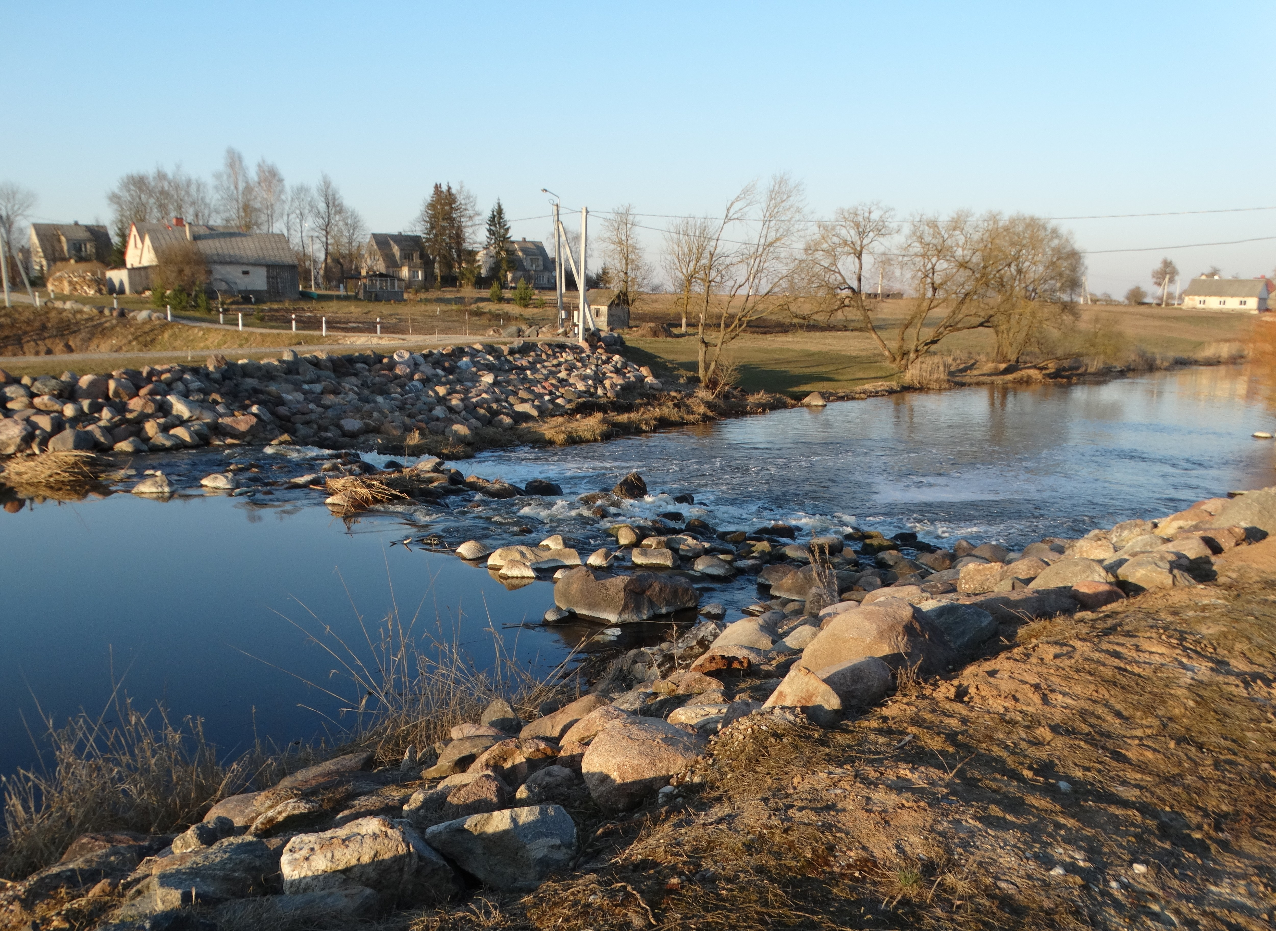 Venta River, Šilėnai, Šiauliai district, Lithuania